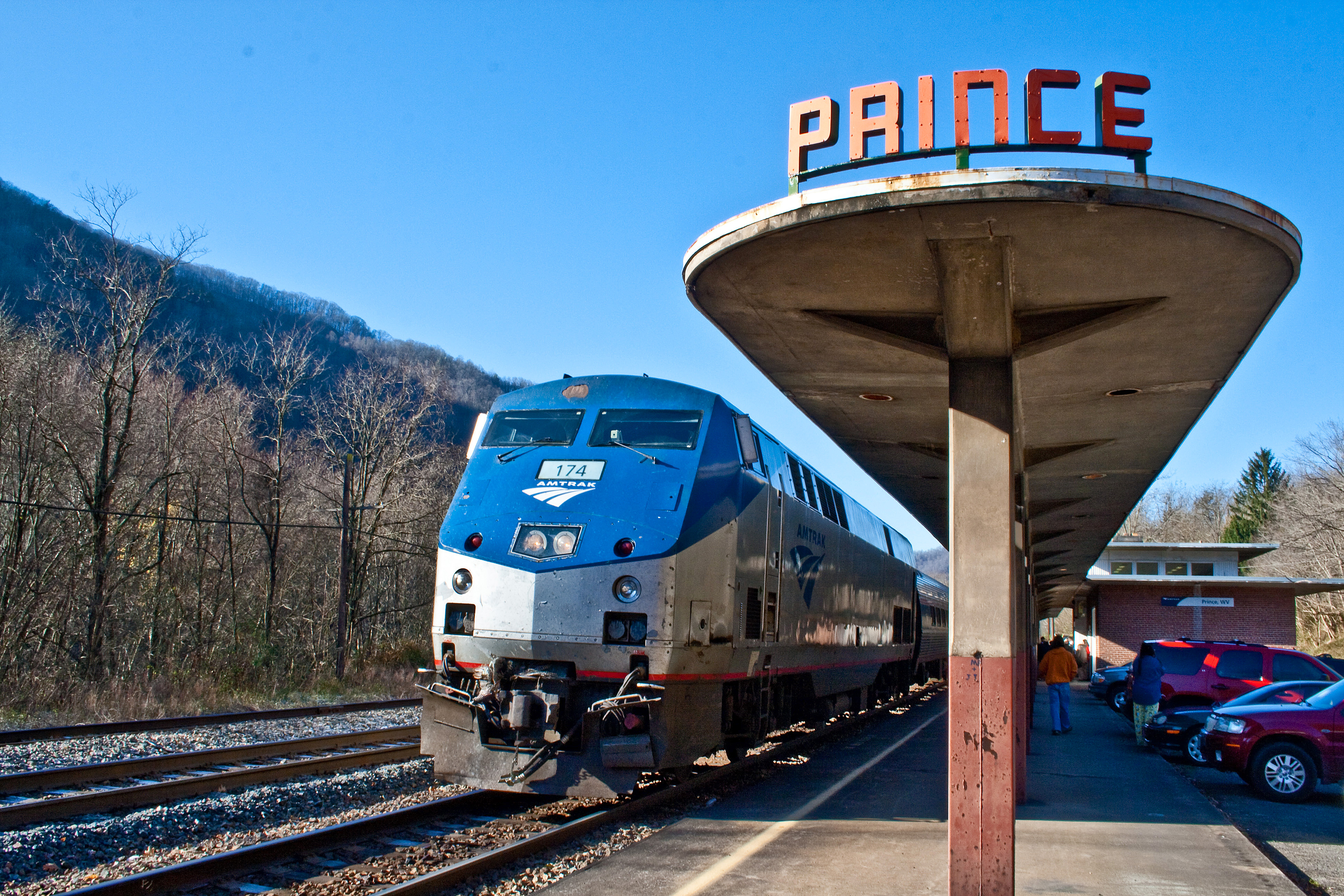 Amtrak's Cardinal has stopped to pickup and discharge passengers in Prince, WV. The former C&O station is usually very quiet except when Amtrak makes its thrice-weekly stops.